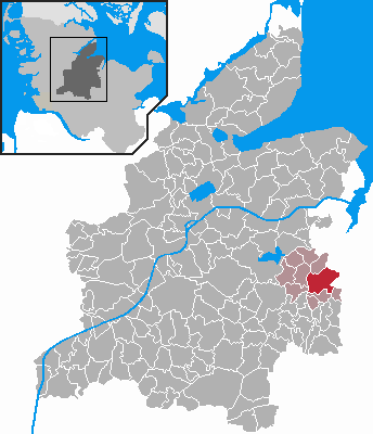 Locator maps of municipalities in Schleswig-Holstein - District Rendsburg-Eckernförde